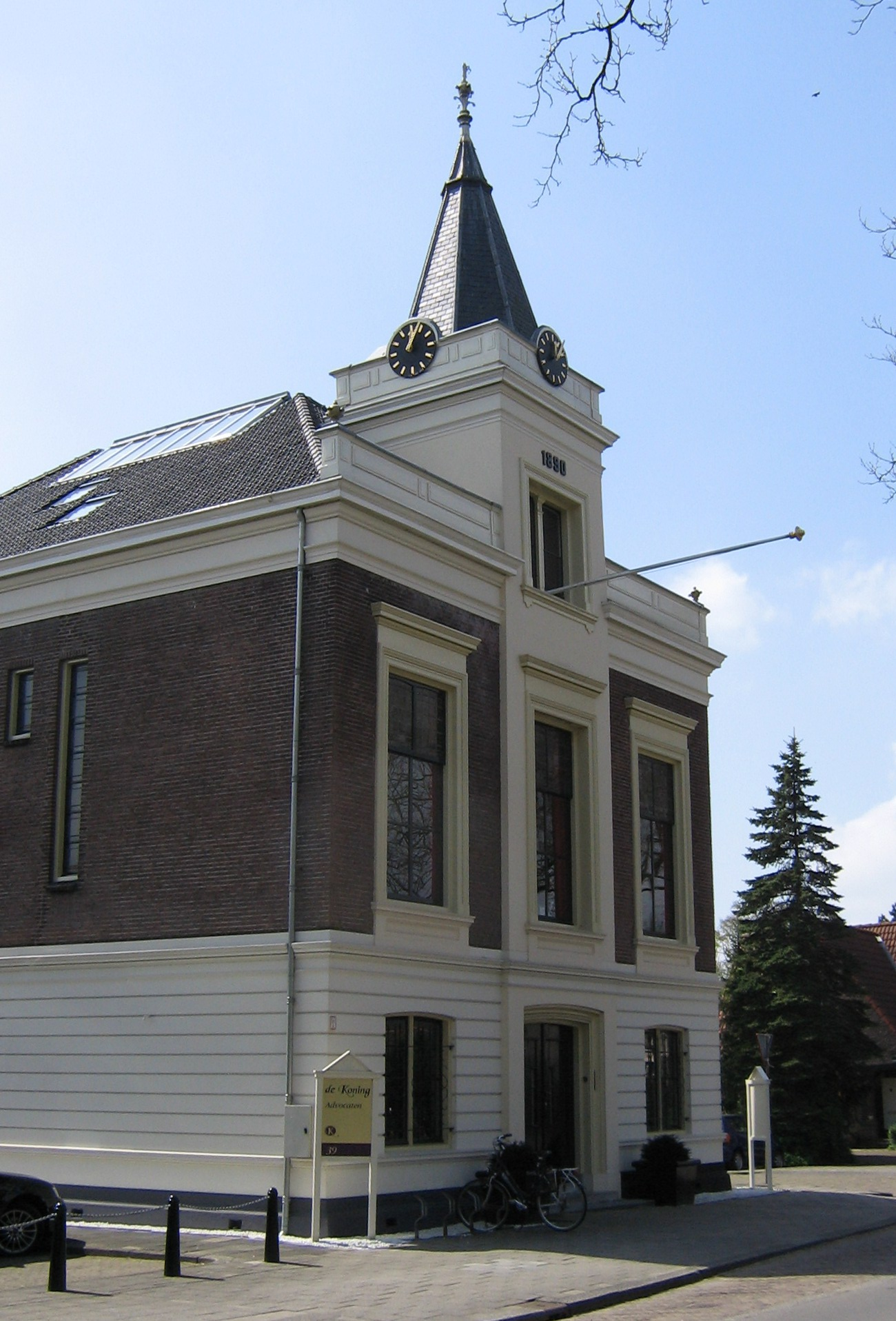 Former town hall, Dubbeldam, Dordrecht, NL.